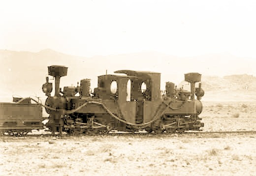 Zwillinge locomotive - Namibia